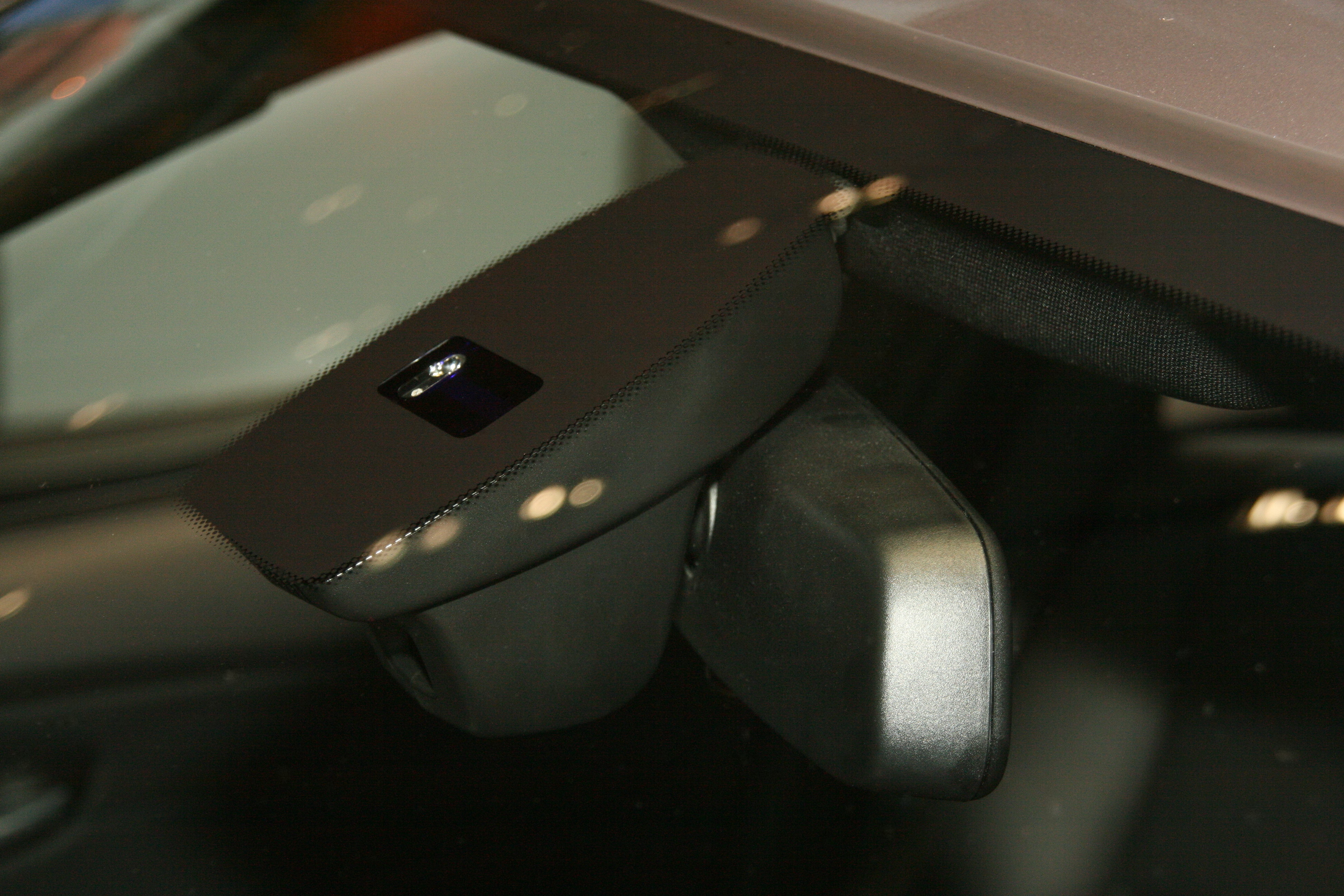 Rain detector